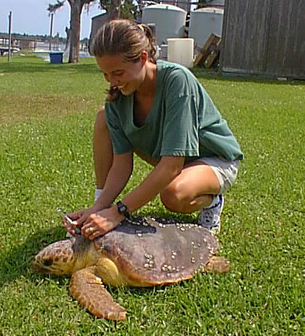 NIST research biologist Jennifer M. Keller taking a blood sample from a loggerhead turtle as part of her study looking at the health impacts of perfluorinated compounds (PFCs) on the endangered marine reptile. Credit: NIST Disclaimer: Any mention of commercial products within NIST web pages is for information only; it does not imply recommendation or endorsement by NIST. Use of NIST Information: These World Wide Web pages are provided as a public service by the National Institute of Standards and Technology (NIST). With the exception of material marked as copyrighted, information presented on these pages is considered public information and may be distributed or copied. Use of appropriate byline/photo/image credits is requested.